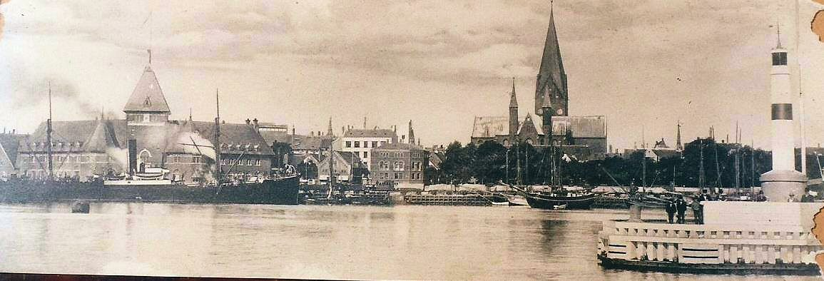 Aarhus habour from approx 1900